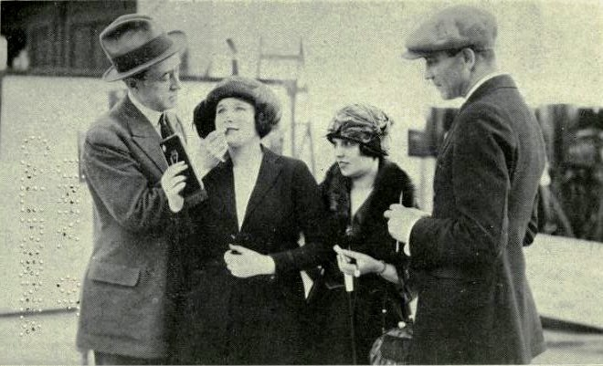 Still from the production of the American silent film Red Hot Romance (1922), published next to page 18 in Breaking into the Movies, 1921, John Emerson and Anita Loos, G. W. Jacobs. Screenwriter and producer John Emerson, actress May Collins, screenwriter Anita Loos, and director Victor Fleming. The caption notes that care must be made when rouging the lips because in the black and white film of the silent era red photographed as black.